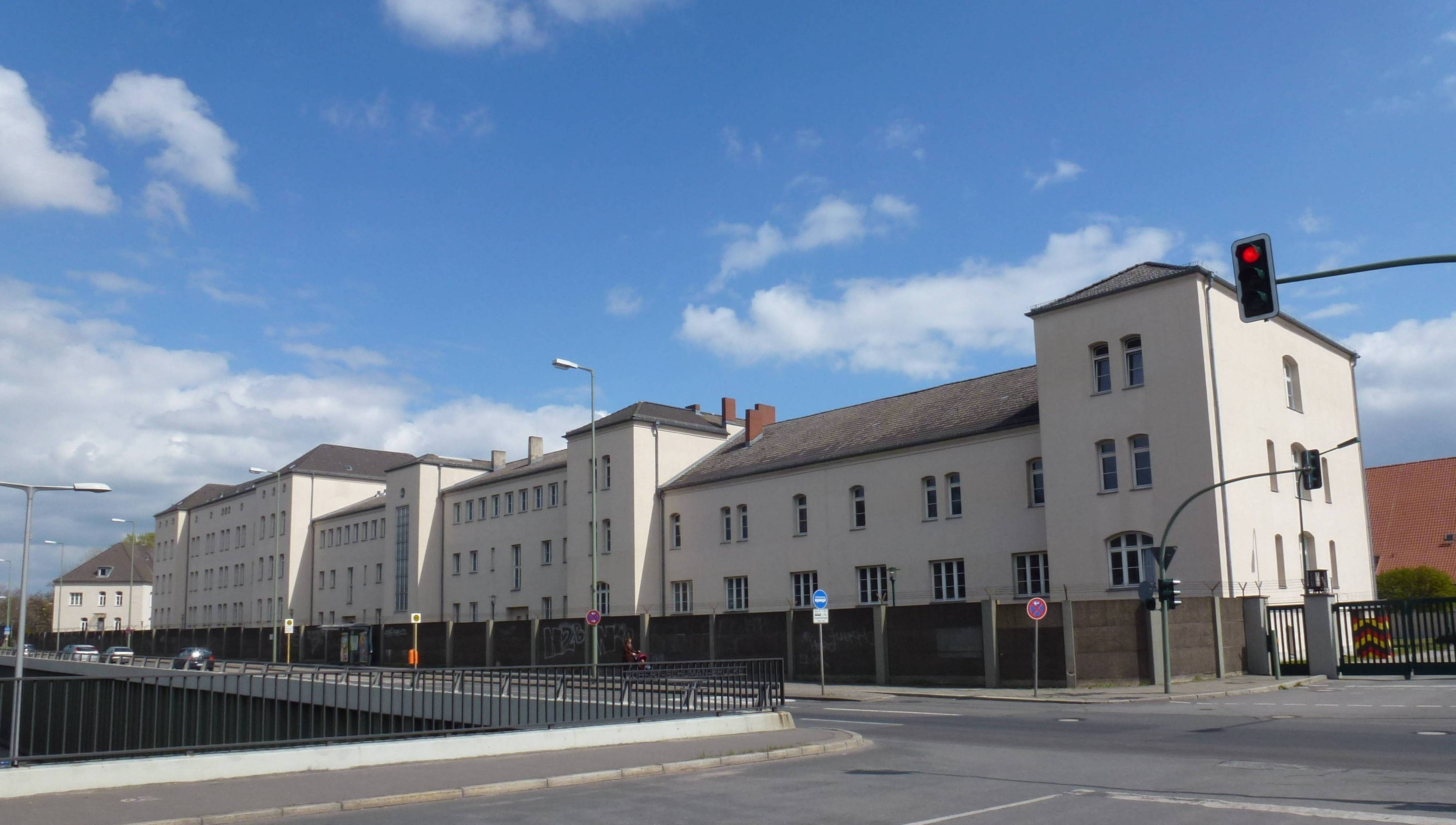 Berlin-Wedding Kurt-Schumacher-Damm Julius-Leber-Kaserne